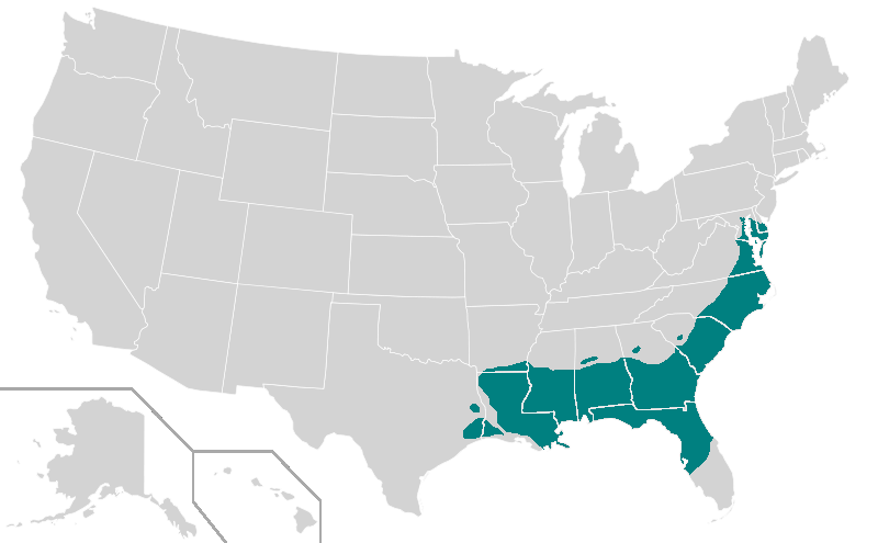 Native range of the Laurel Oak (Quercus hemisphaerica)